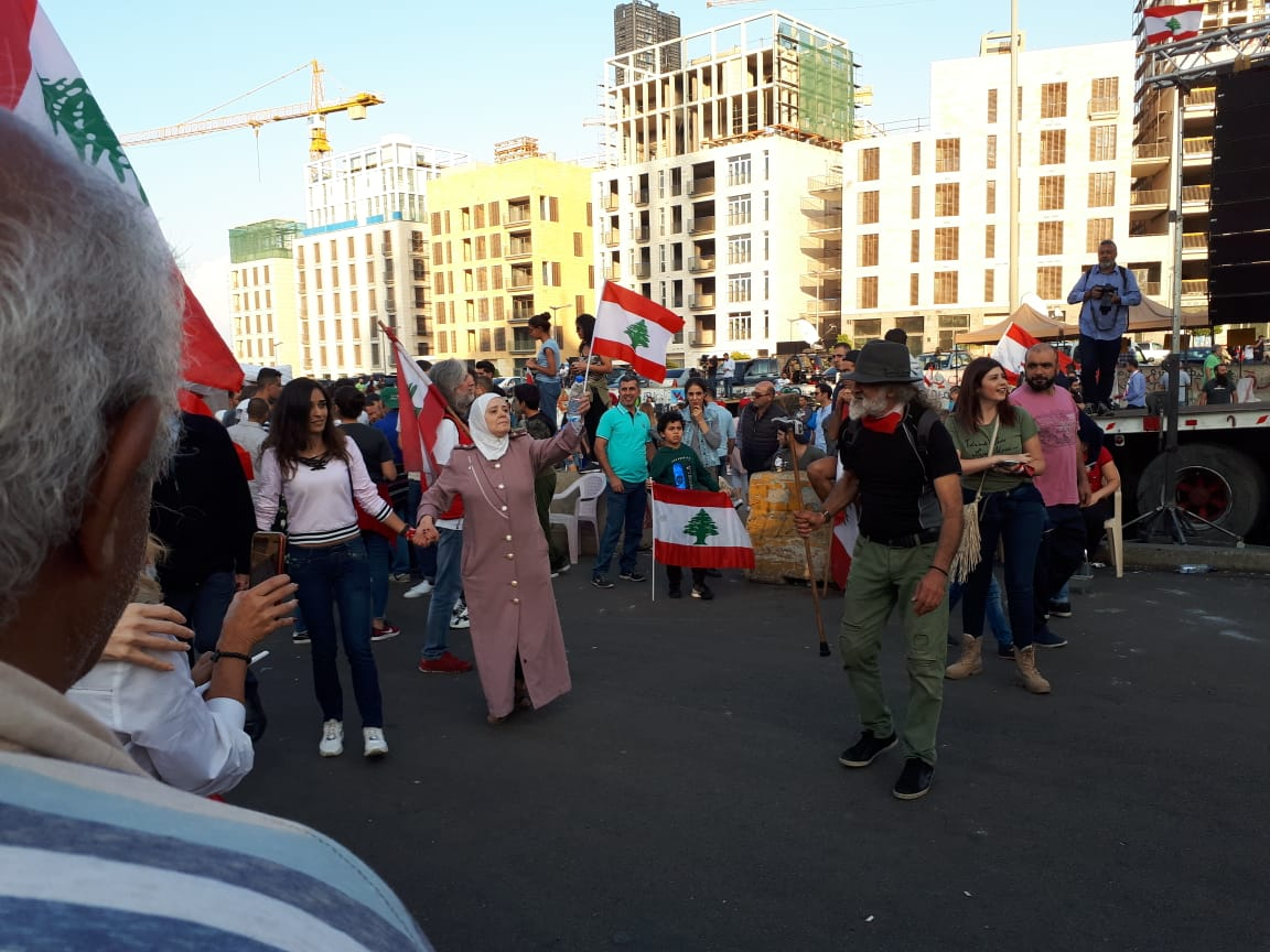 Sunday of Unity - Protests in Beirut 3 November 2019